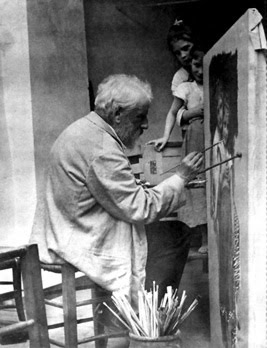 William-Adolphe Bouguereau in his studio